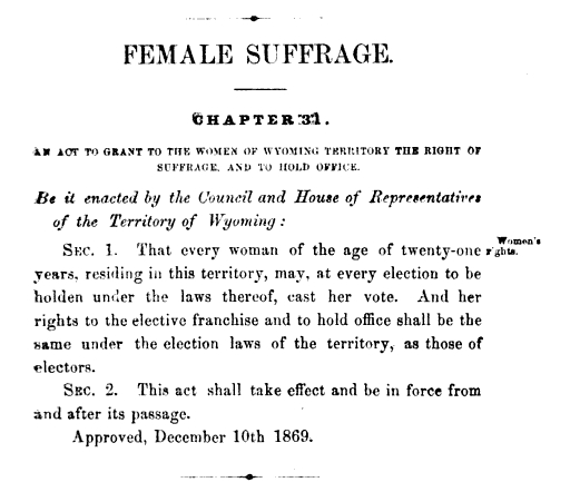 An Act to Grant to the Women of Wyoming Territory the Right of Suffrage and to Hold Office